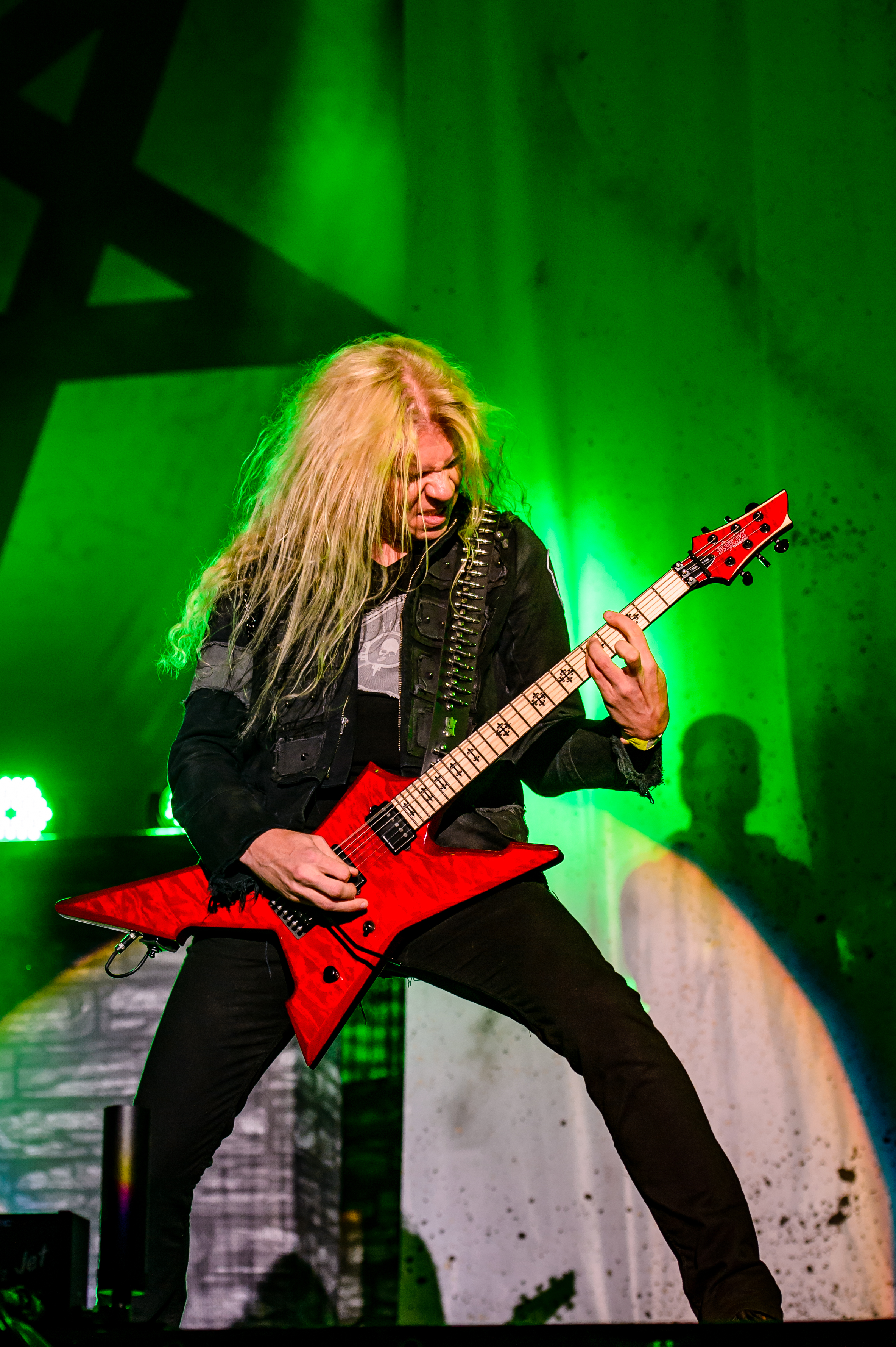 Arch Enemy; Wacken Open Air 2016